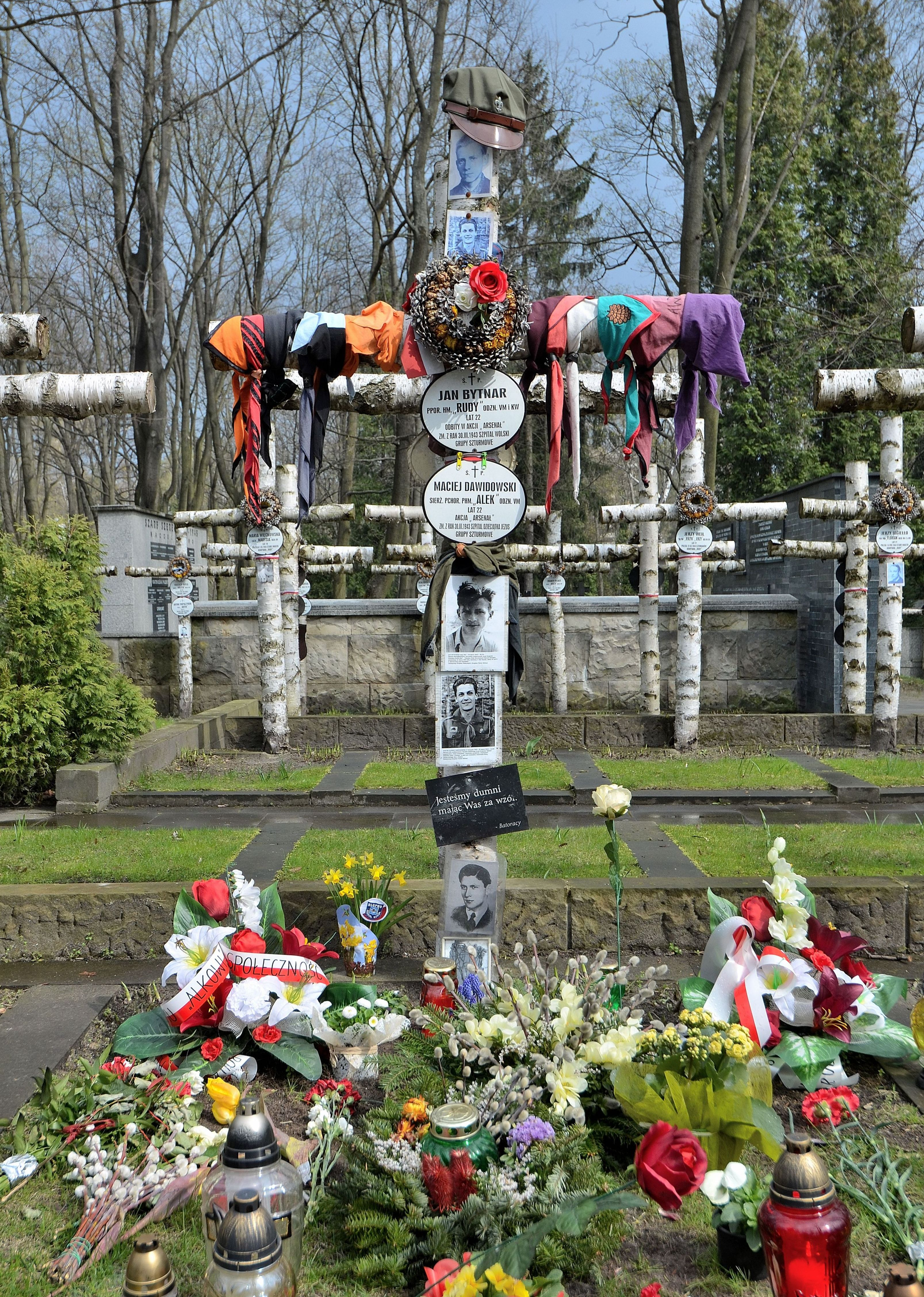 Grave of Jan Bytnar "Rudy" and Maciej Aleksy Dawidowski "Alek" in the "Zośka" Battalion quarter in the Powązki Military Cemetery in Warsaw